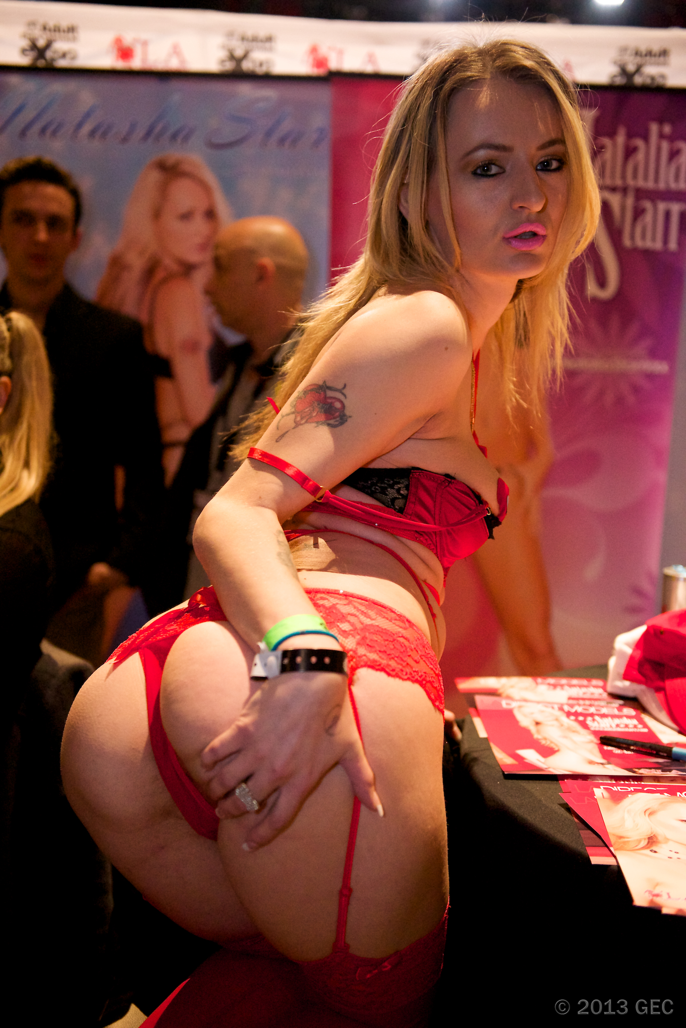 2013 AVN Adult Entertainment Expo AEE at Hard Rock Hotel - Las Vegas. 2013 © GEC.